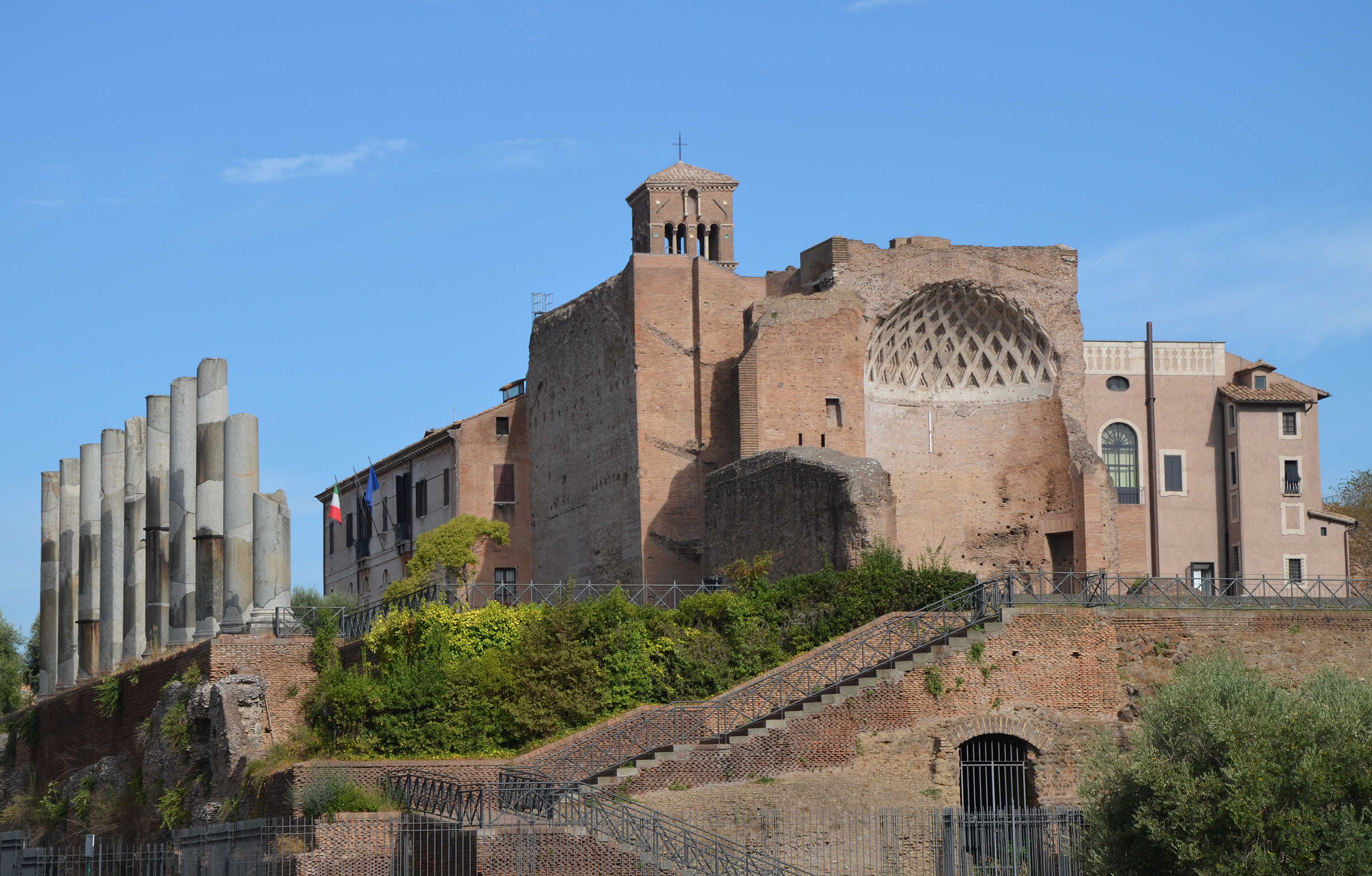 Temple of Venus and Roma, Upper Via Sacra, Rome